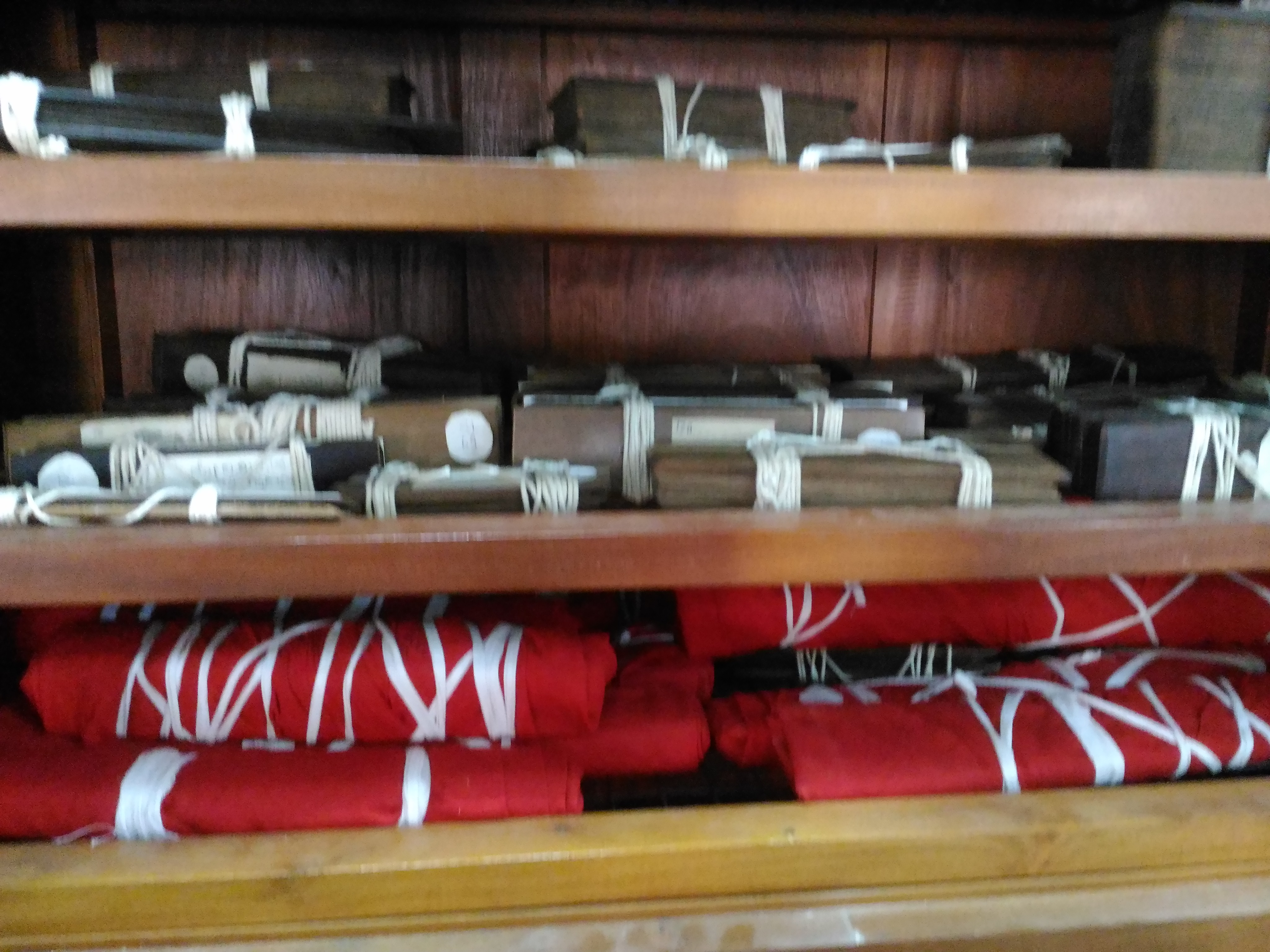 ಮಂಗಳೂರು ವಿ ವಿ ಕನ್ನಡ ವಿಭಾಗ